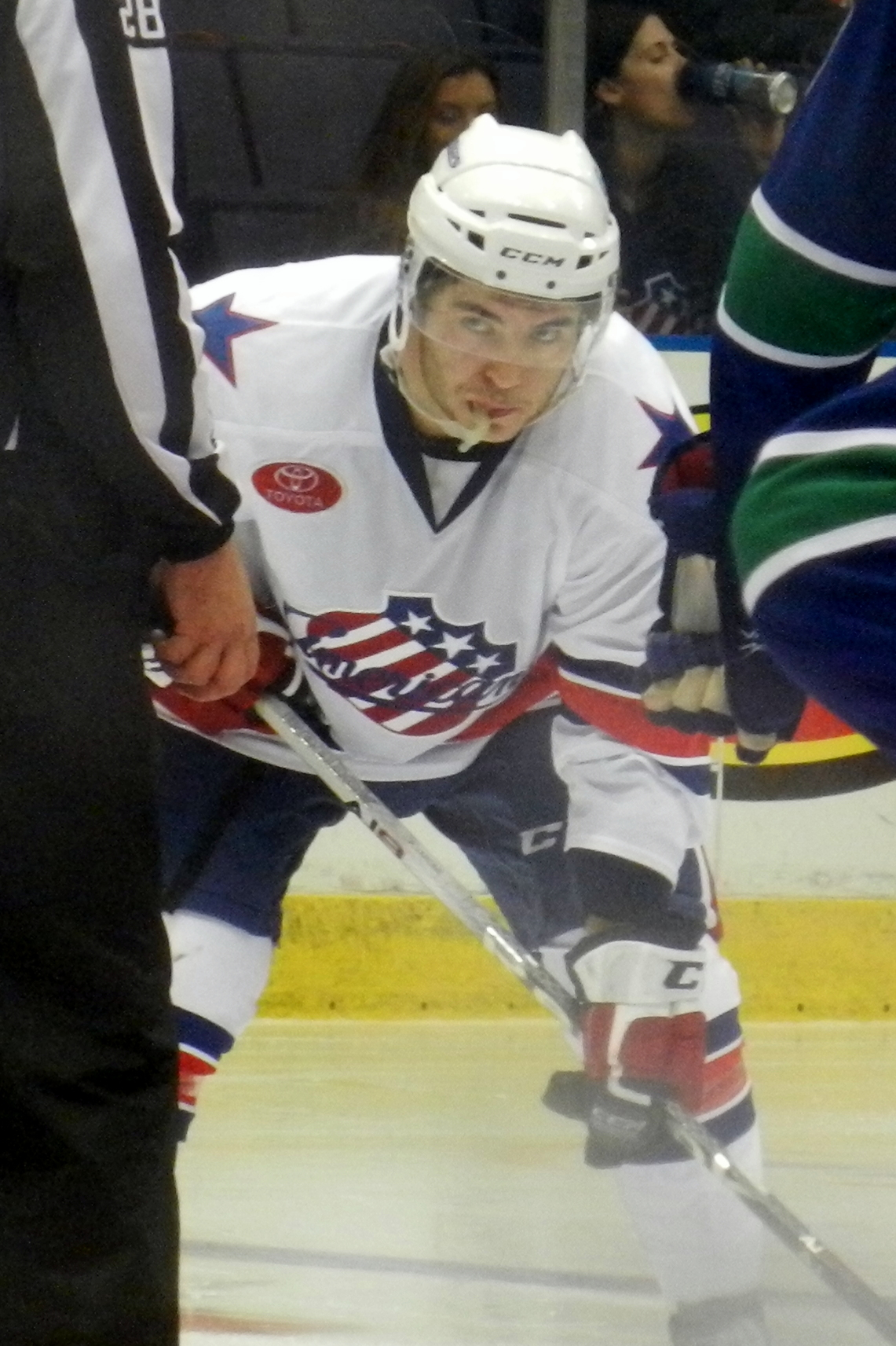 Phil Varone playing for the Rochester Americans during the 2013-14 AHL season